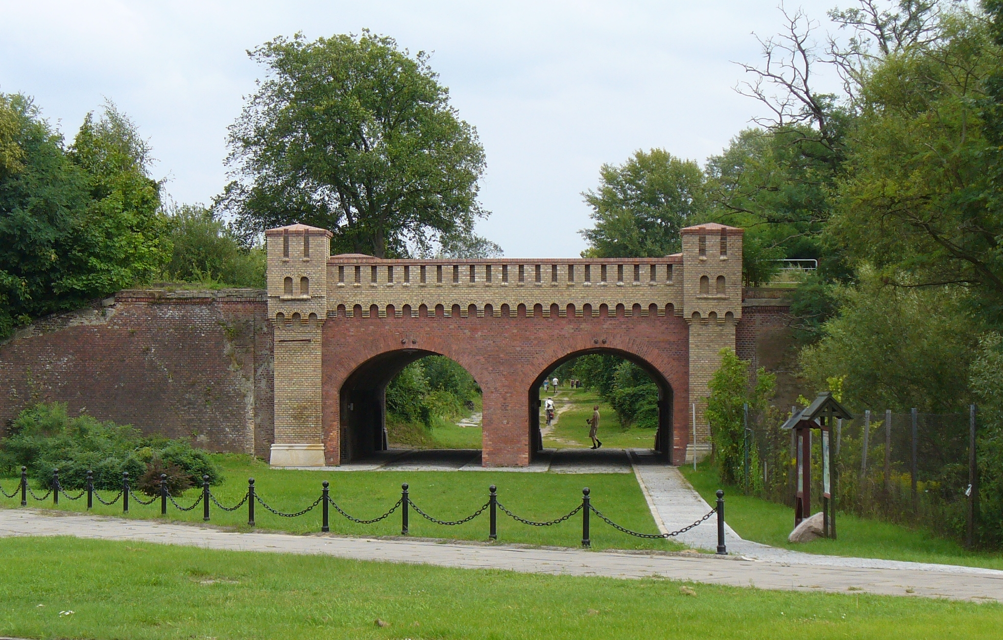 Berlin Gate in Fortress Küstrin (now Kostrzyn nad Odrą, Poland)